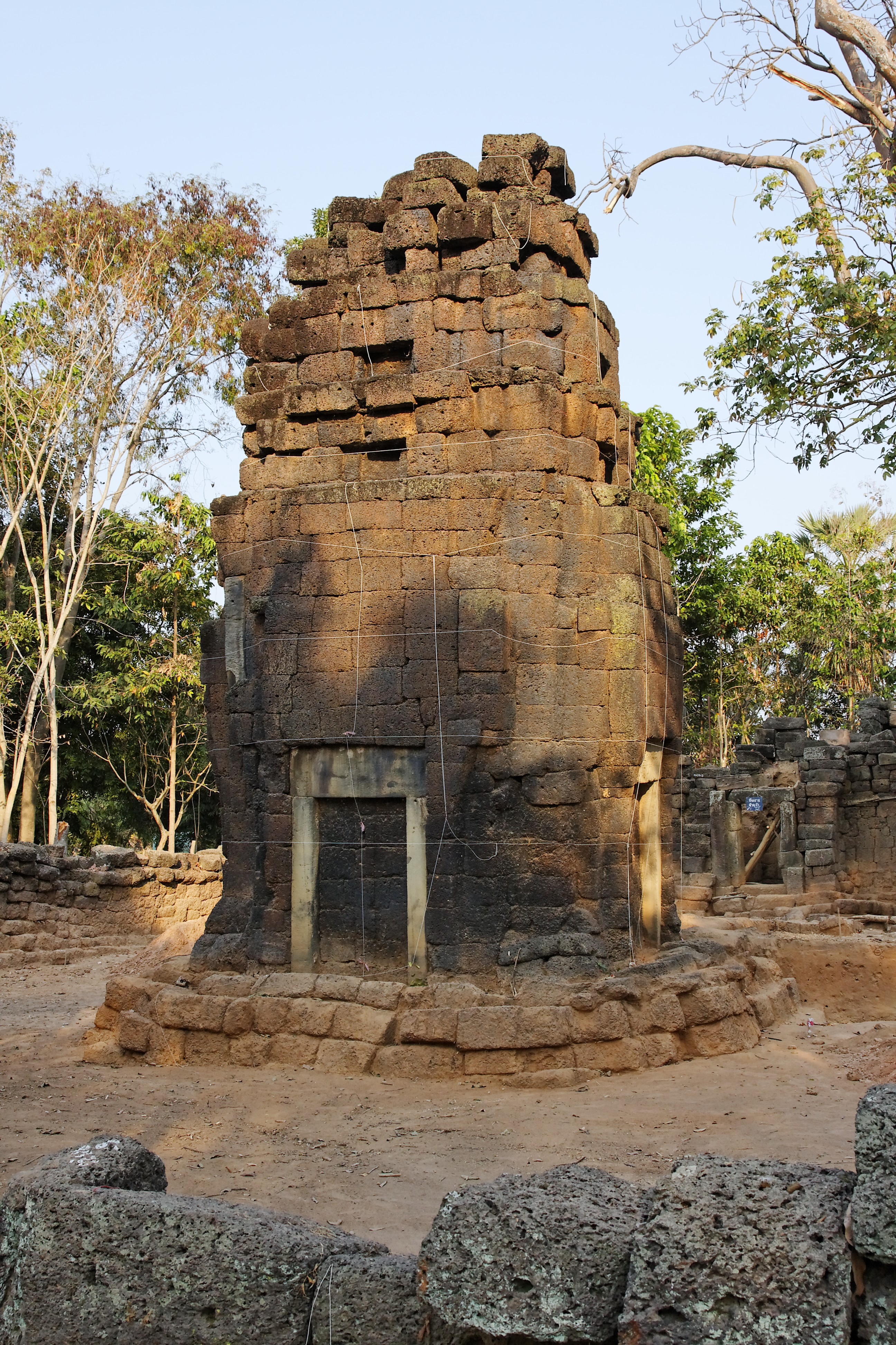 Prasat Hin Ban Samo, Thailand